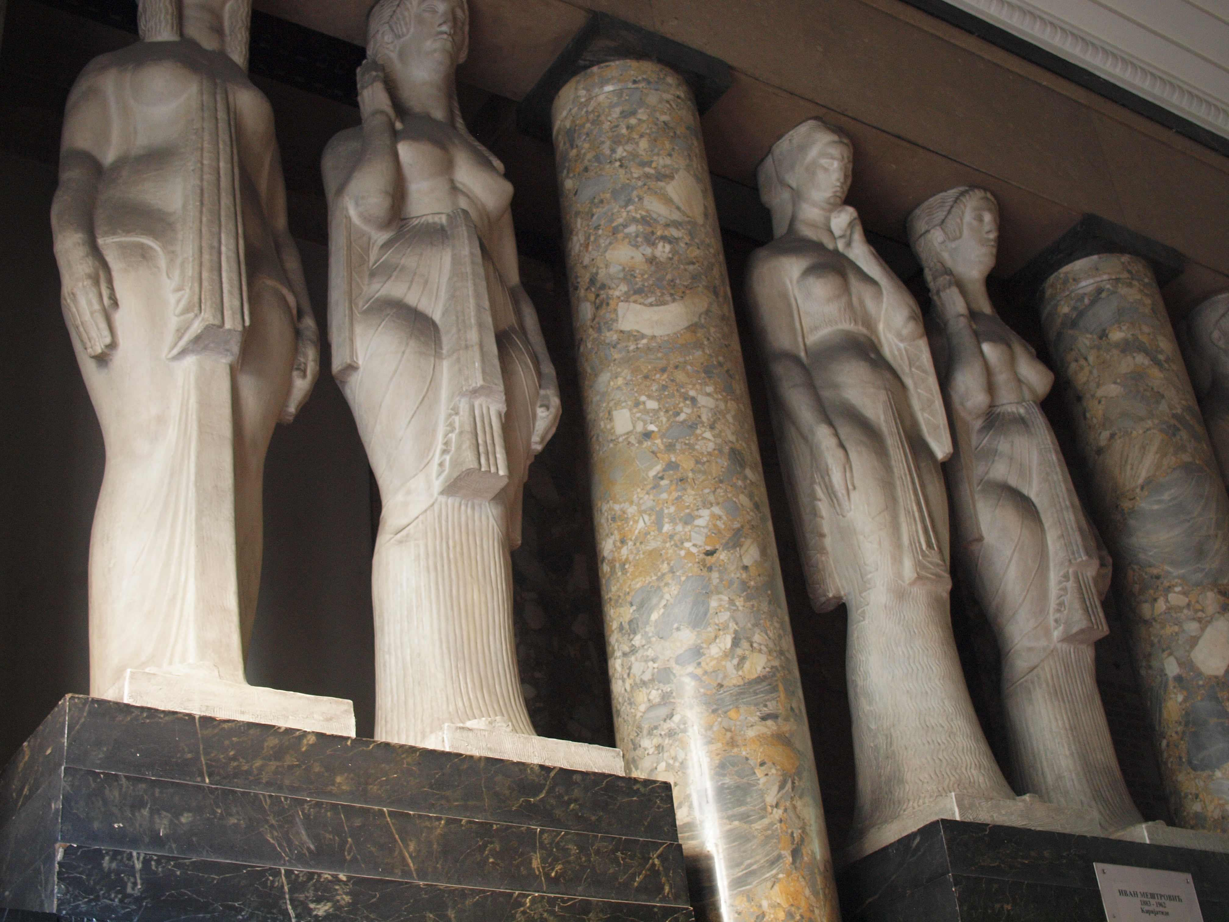 Ivan Meštrović Karyatide Vidovdanski hram